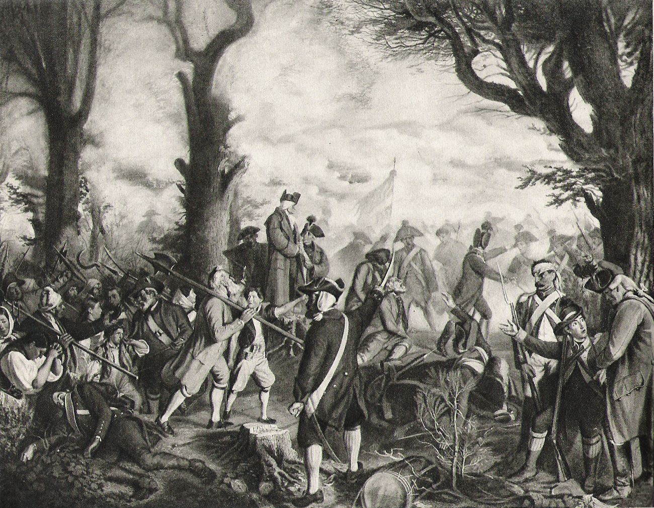 The last days of old Berne, painting by Friedrich Walthard